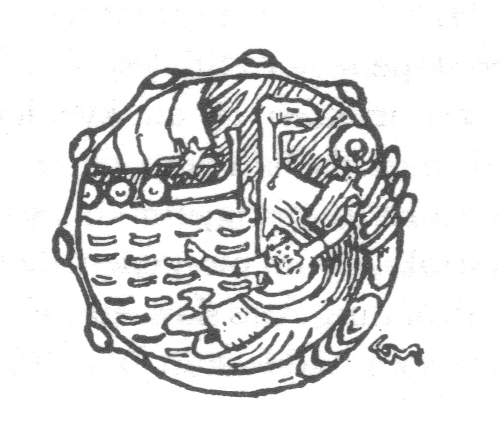 Gerhard Munthe: Illustration for Ynglingesaga. Snorre 1899-edition. 25